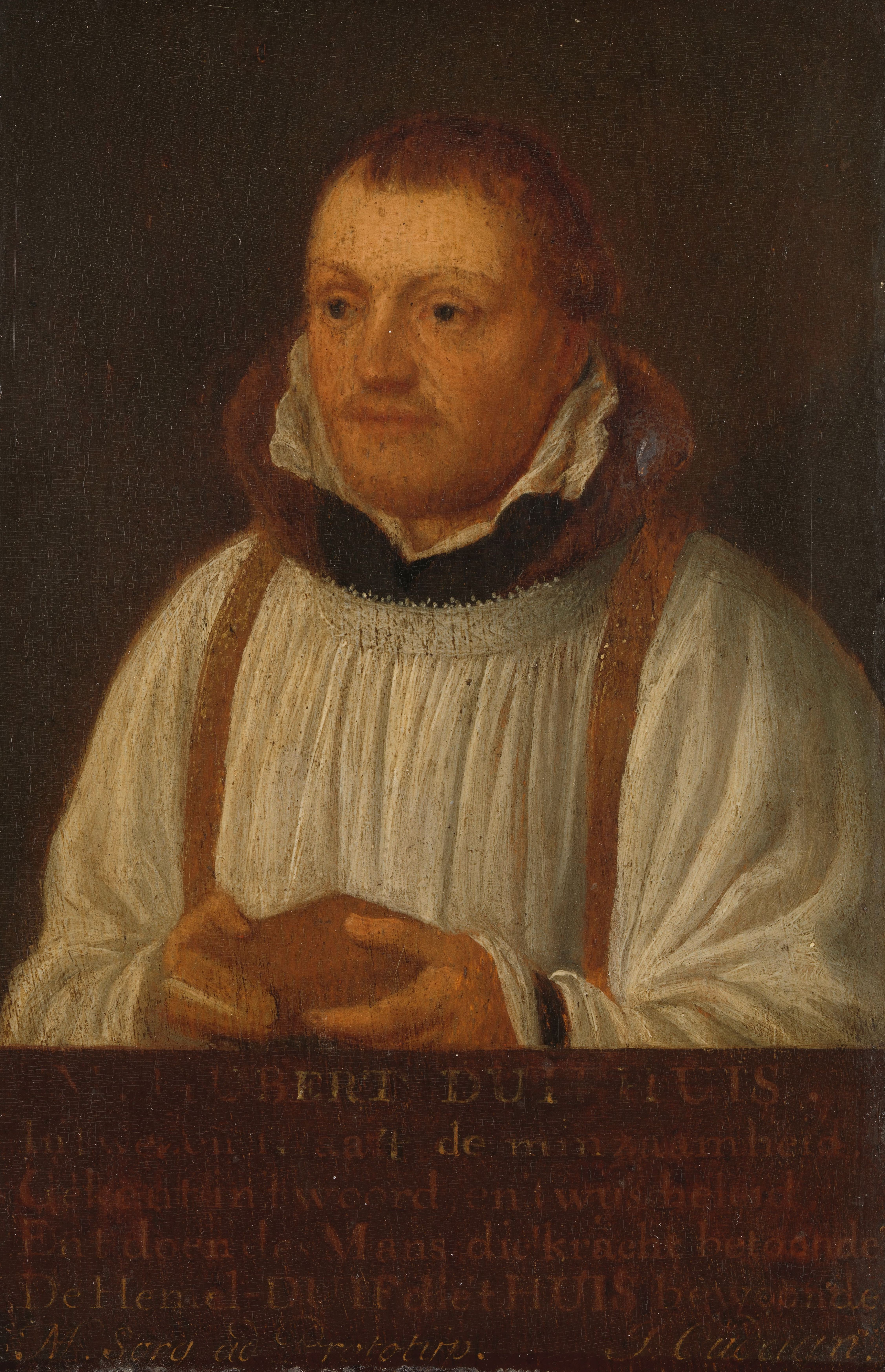 Portrait of Huybert Duyfhuys (1531–1581), priest of the Sy. Jacobskerk in Utrecht. At half length, facing left, he is holding a book.